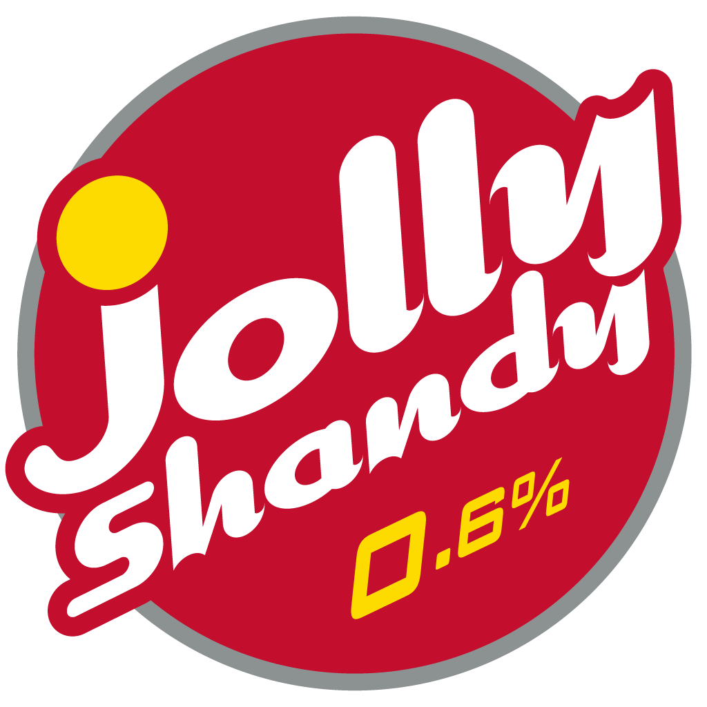 The official logo of Jolly Shandy.